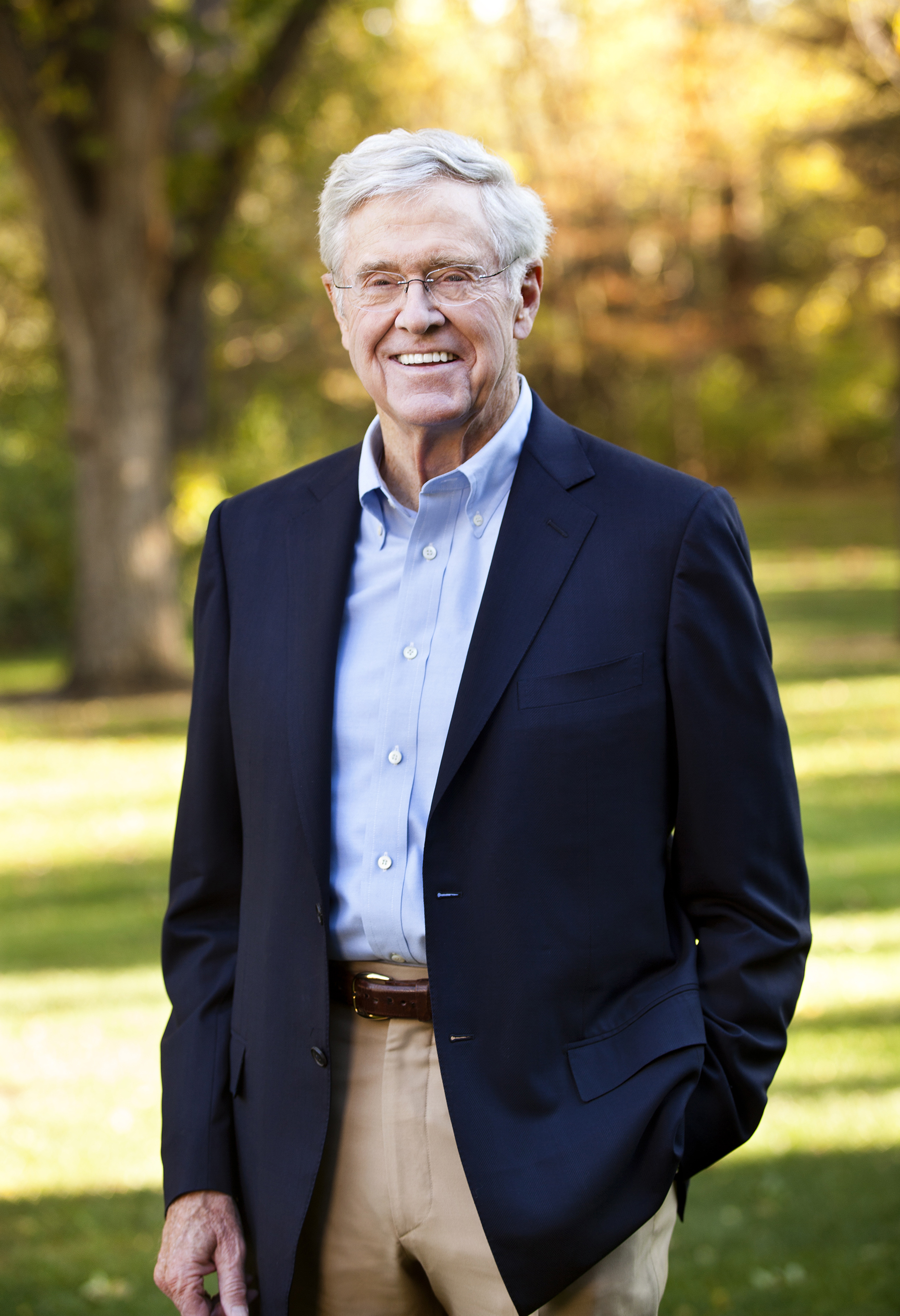 Portrait of Charles Koch